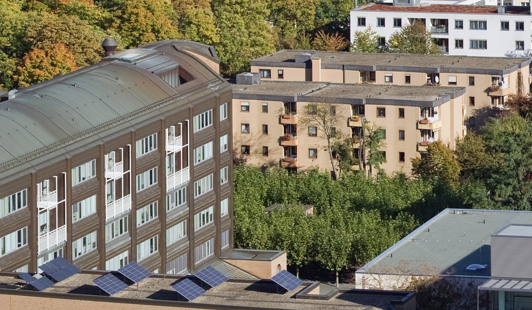 Holocaust Memorial at Neuer Boerneplatz, Frankfurt am Main, Hesse, Germany. View from steeple of Kaiserdom St. Bartholomaus